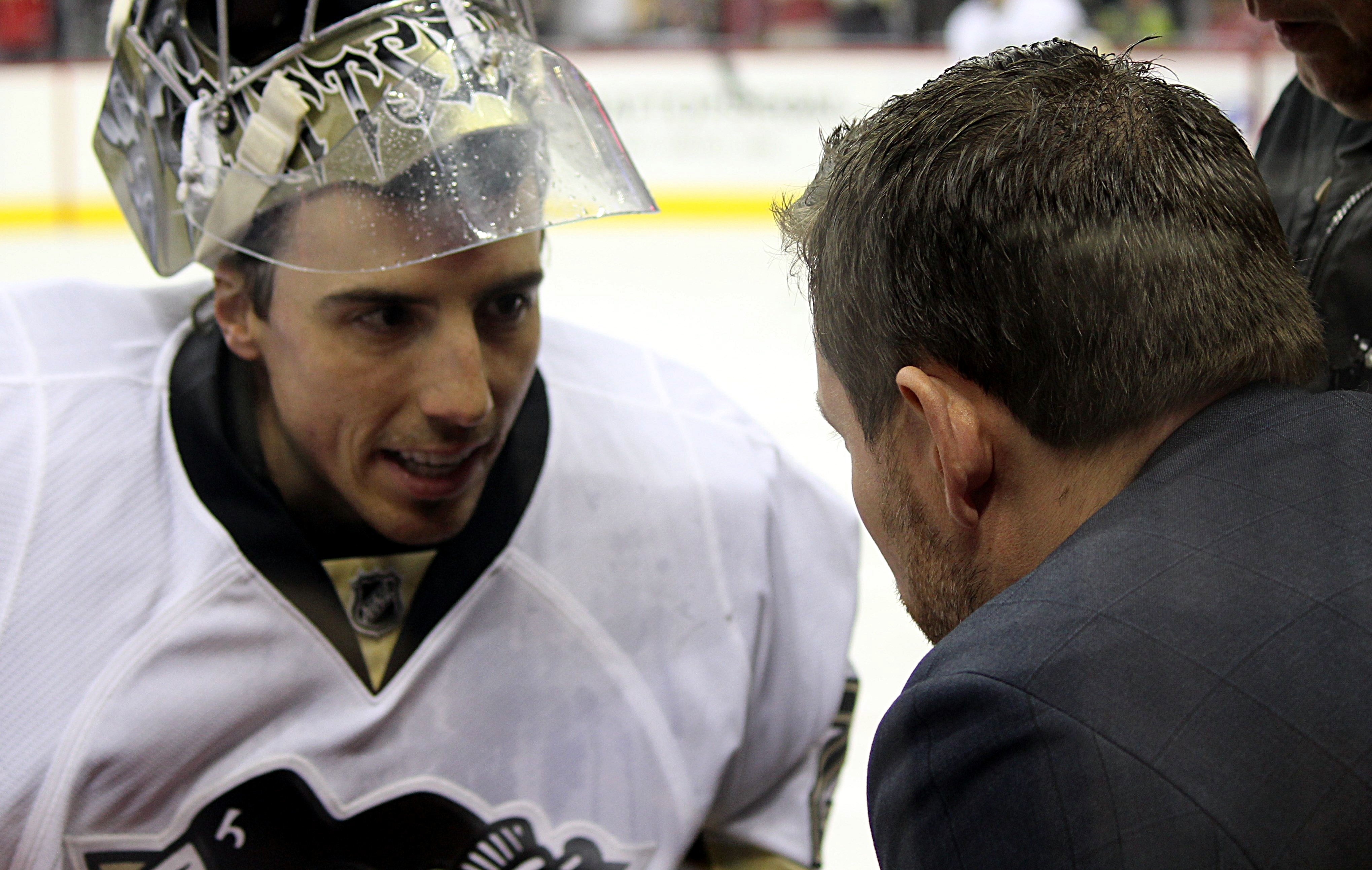 Pittsburgh Penguins goaltending coach Mike Bales works with goaltender Marc-Andre Fleury during a game against the Washington Capitals, March 1, 2016, at Verizon Center in Washington, D.C.